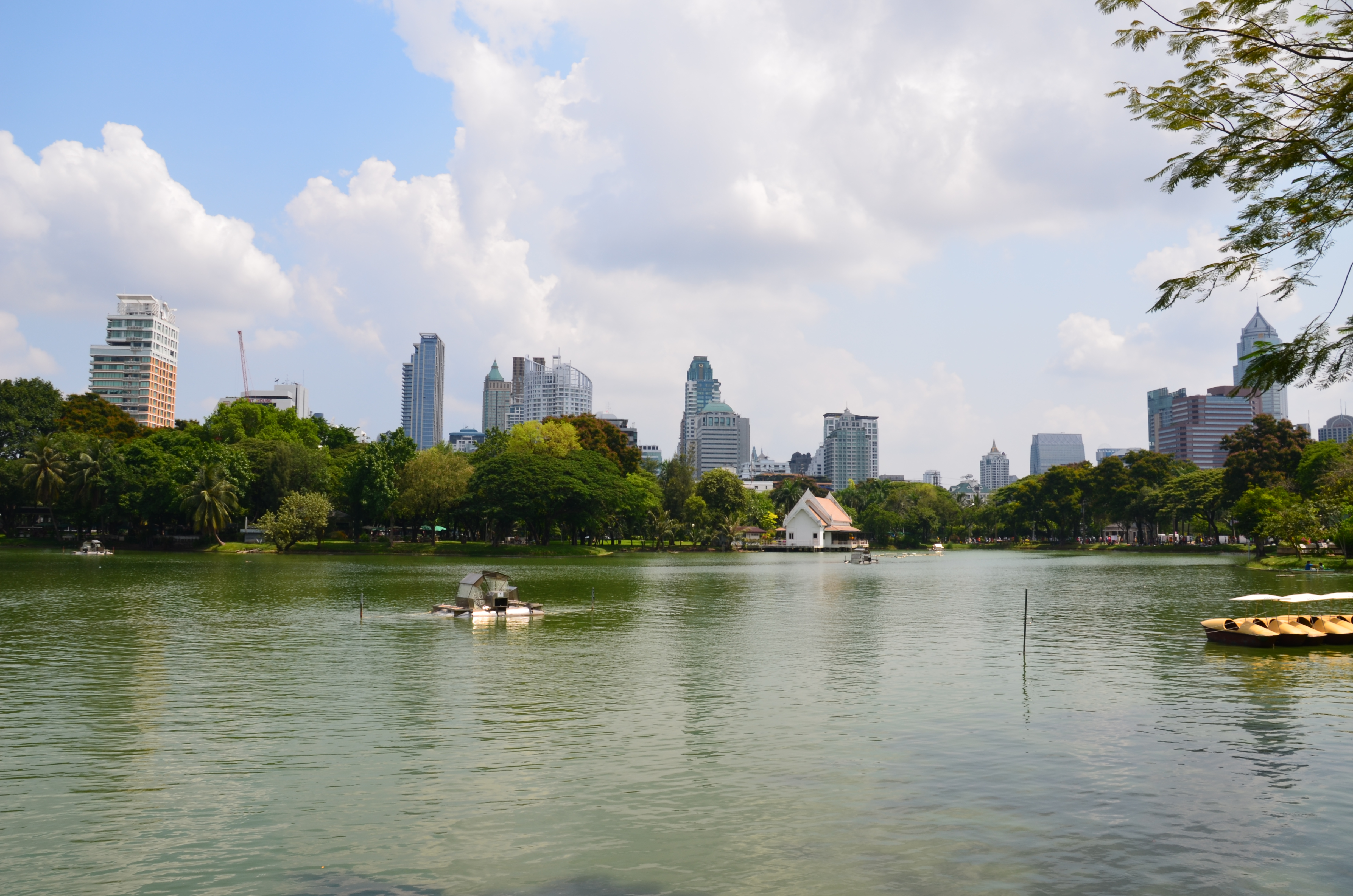 Lumpini Park, Bangkok, Thailand view of the Ratchadamri-Ratchaphrasong Commercial District.